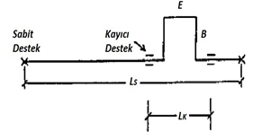 expanasion loop 2Türkçe: Asimetrik döngü